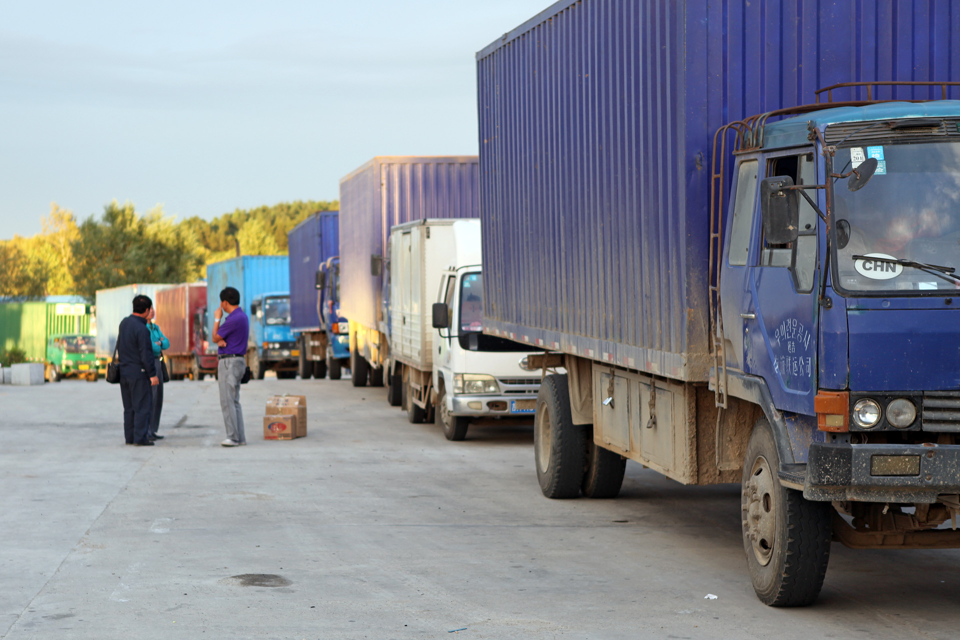 Trucks from China are waiting for opening the border between China and DPRK.